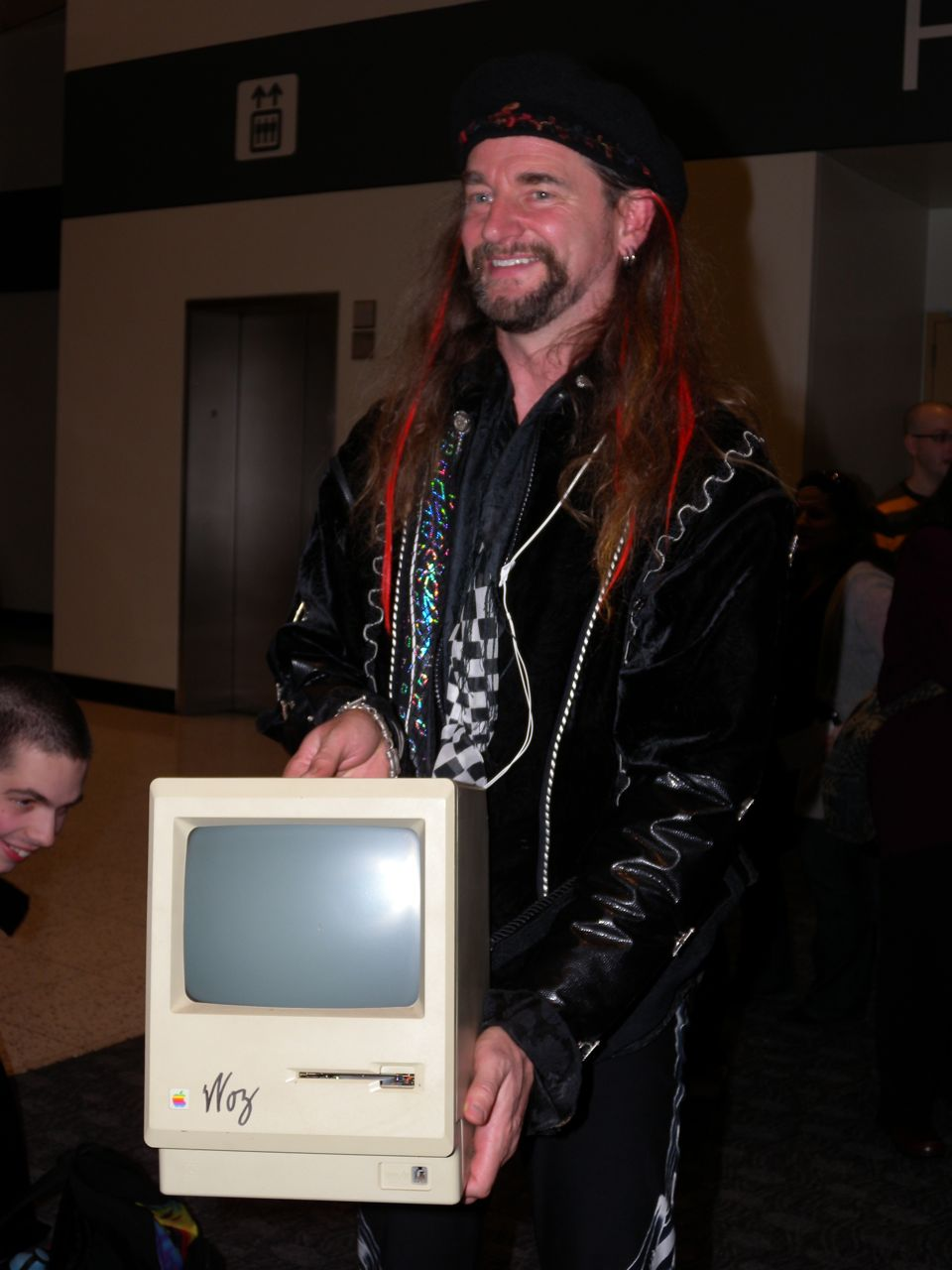 Bruce Damer demonstrates an early macintosh computer signed by Apple cofounder Steve Wozniak. Pictue taken after the premier of the documentary film "MacHEADS" at Macworld 2009.